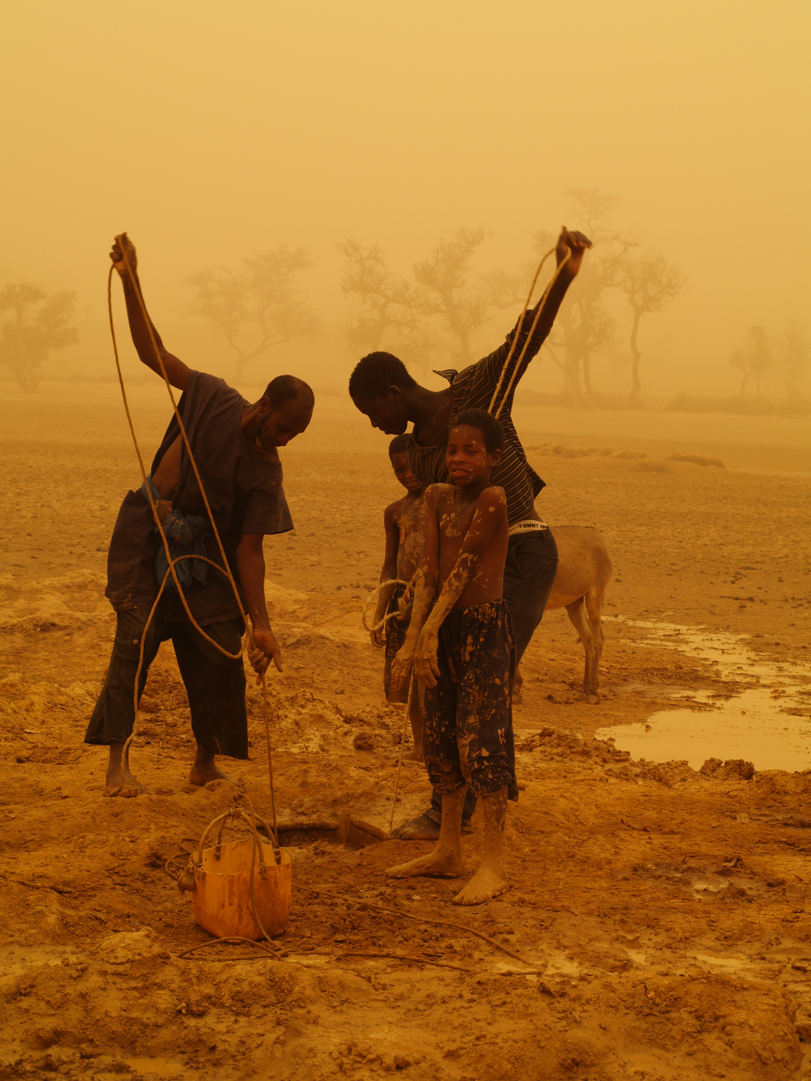 Men and children withdrawing water for irrigation in the Dogon plateau (Mali) during a sandstorm day. Taken on 22 April 2010, Featured on GeoLog, the official blog of the European Geosciences Union, Winner in the EGU Photo Competition 2014.